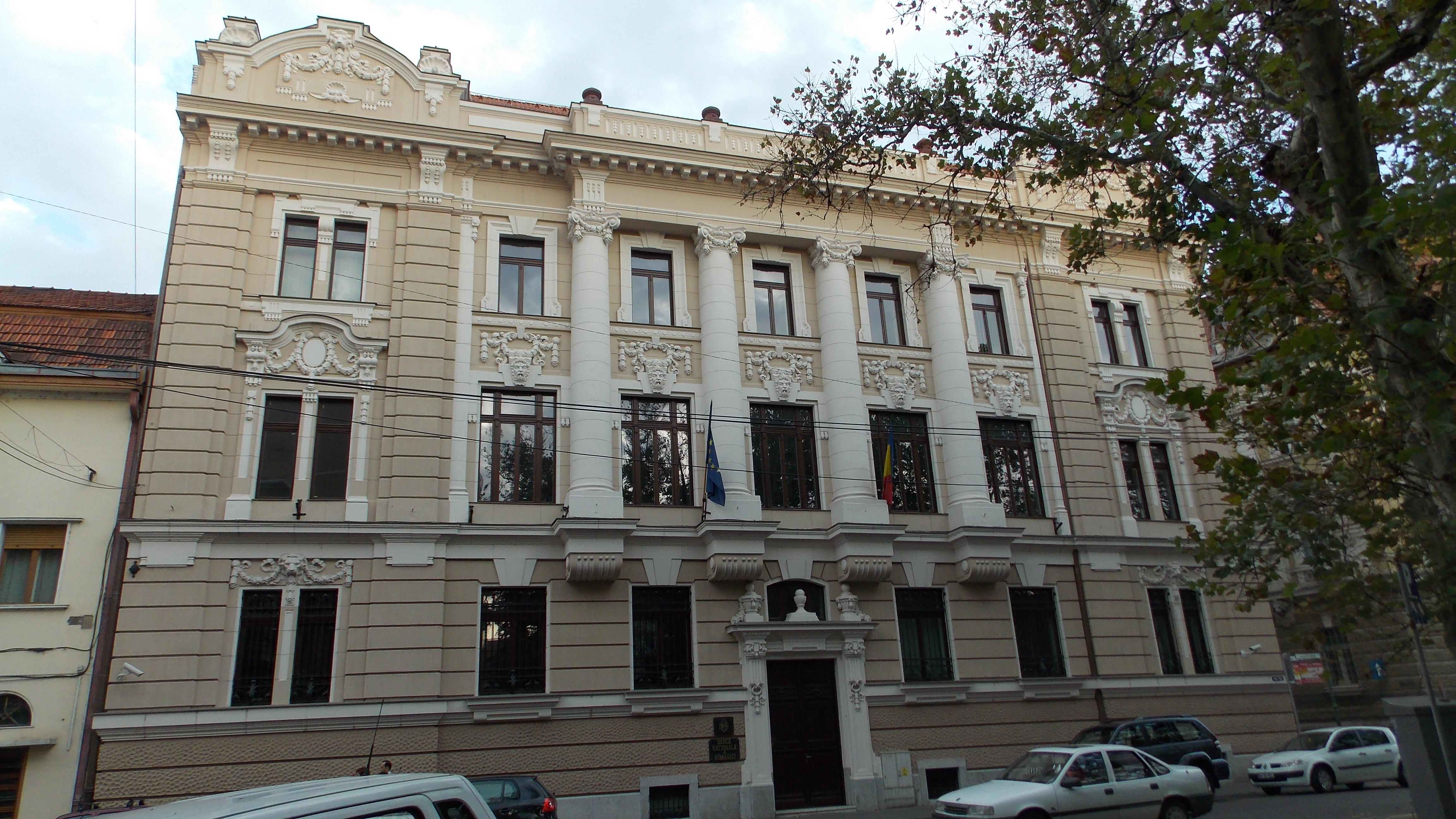 Romanian National Bank - OradeaRomână: Banca Națională a României - Oradea